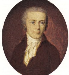 Johan Georg Ludvig Manthey, Danish pharmacist who owned Løve Apotek in Copenhagen.